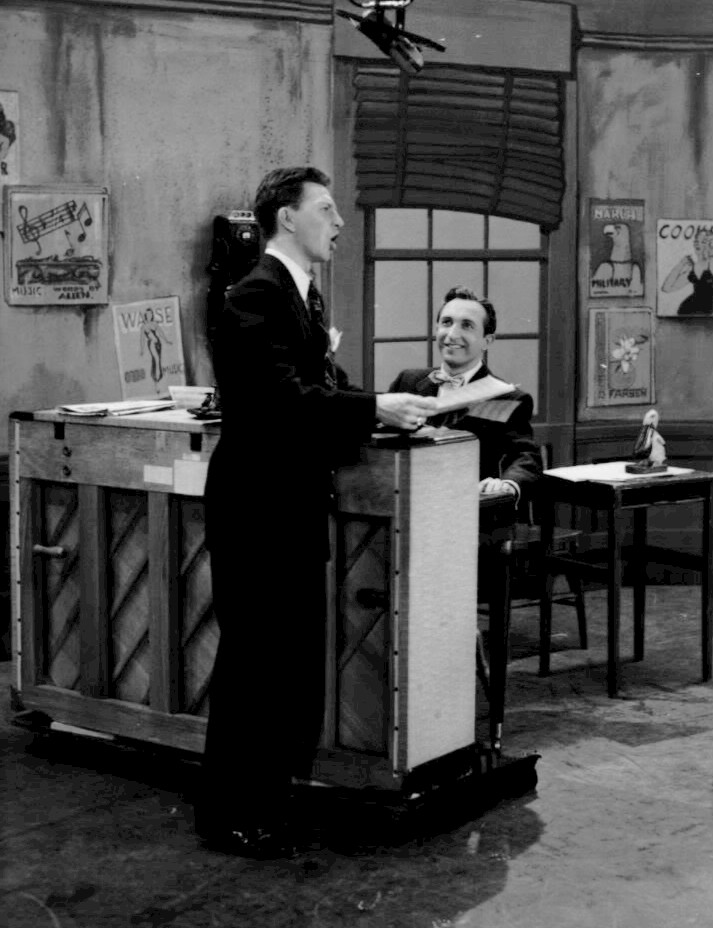 Photo of Donald O'Connor and actor-songwriter Sid Miller (at piano) performing on the television program The Colgate Comedy Hour.